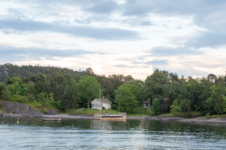 Ferry terminal at Malmøykalven, a small island in Oslo.